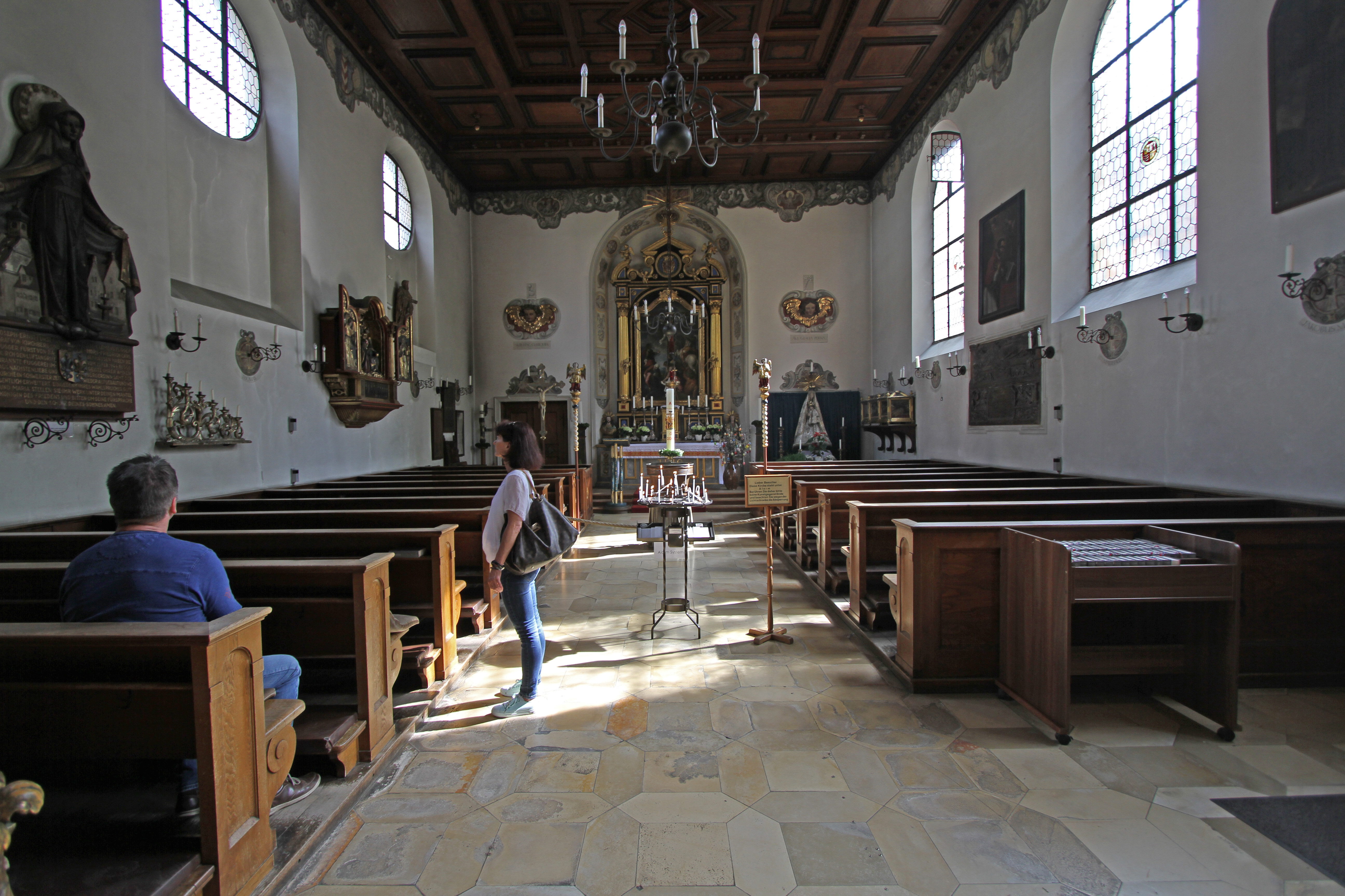 Fuggerei. World's oldest social housing complex, built by Jakob Fugger in Augsburg.